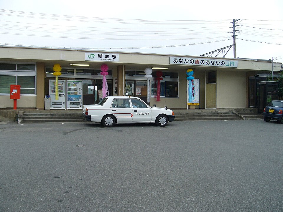 Semine Station, Kurihara, Miyagi, Japan